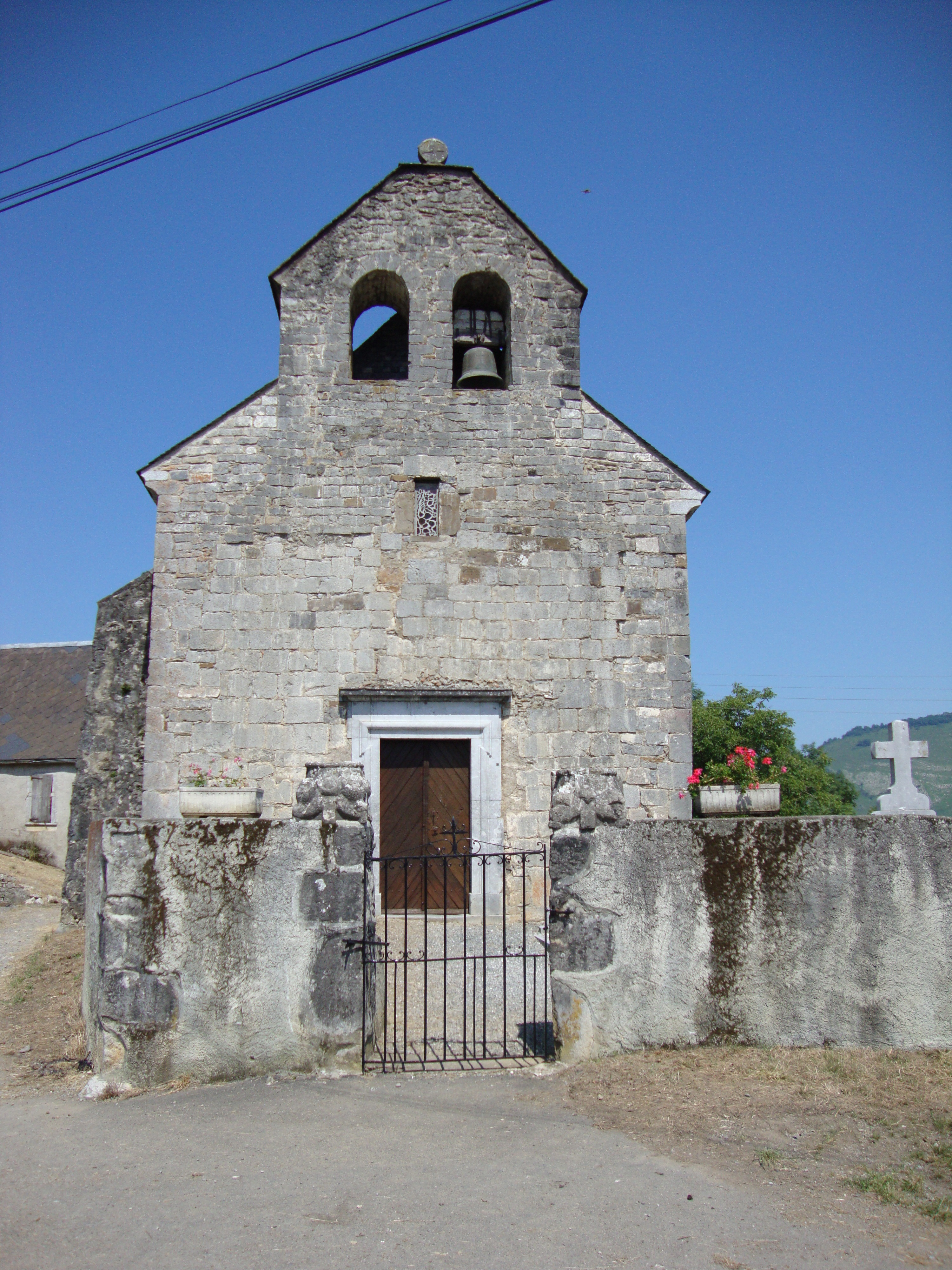 Sunhar (Lichans-Sunhar, Pyr-Atl, Fr) church with a basque stele on top of the bell gable